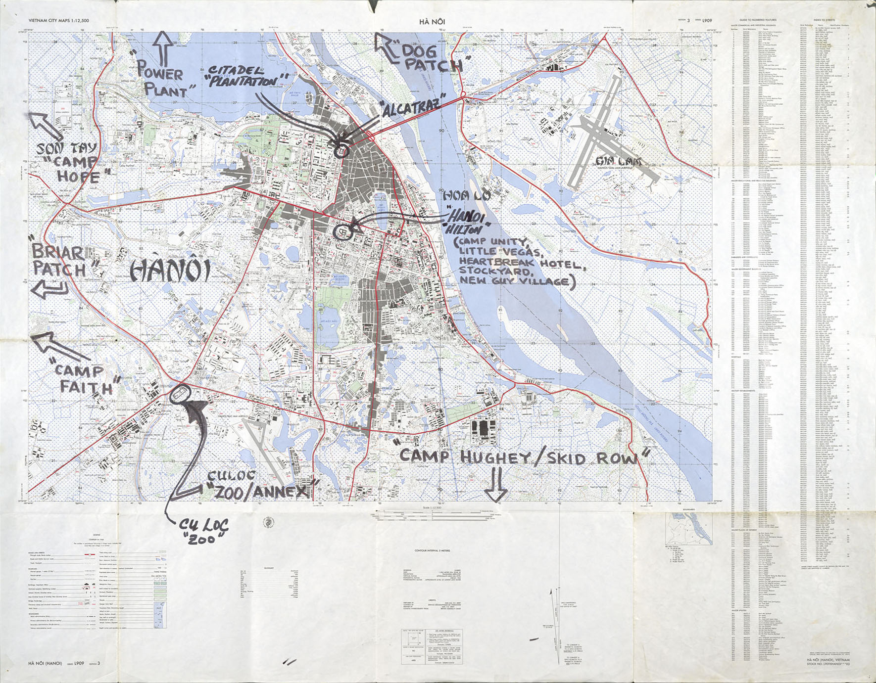 Shortly after the war, ex-POW Mike McGrath annotated this detailed map of Hanoi to show the location of prisons. He did it so he would not forget where the camps were. McGrath also made drawings of his captivity, several of which appear in this exhibit.